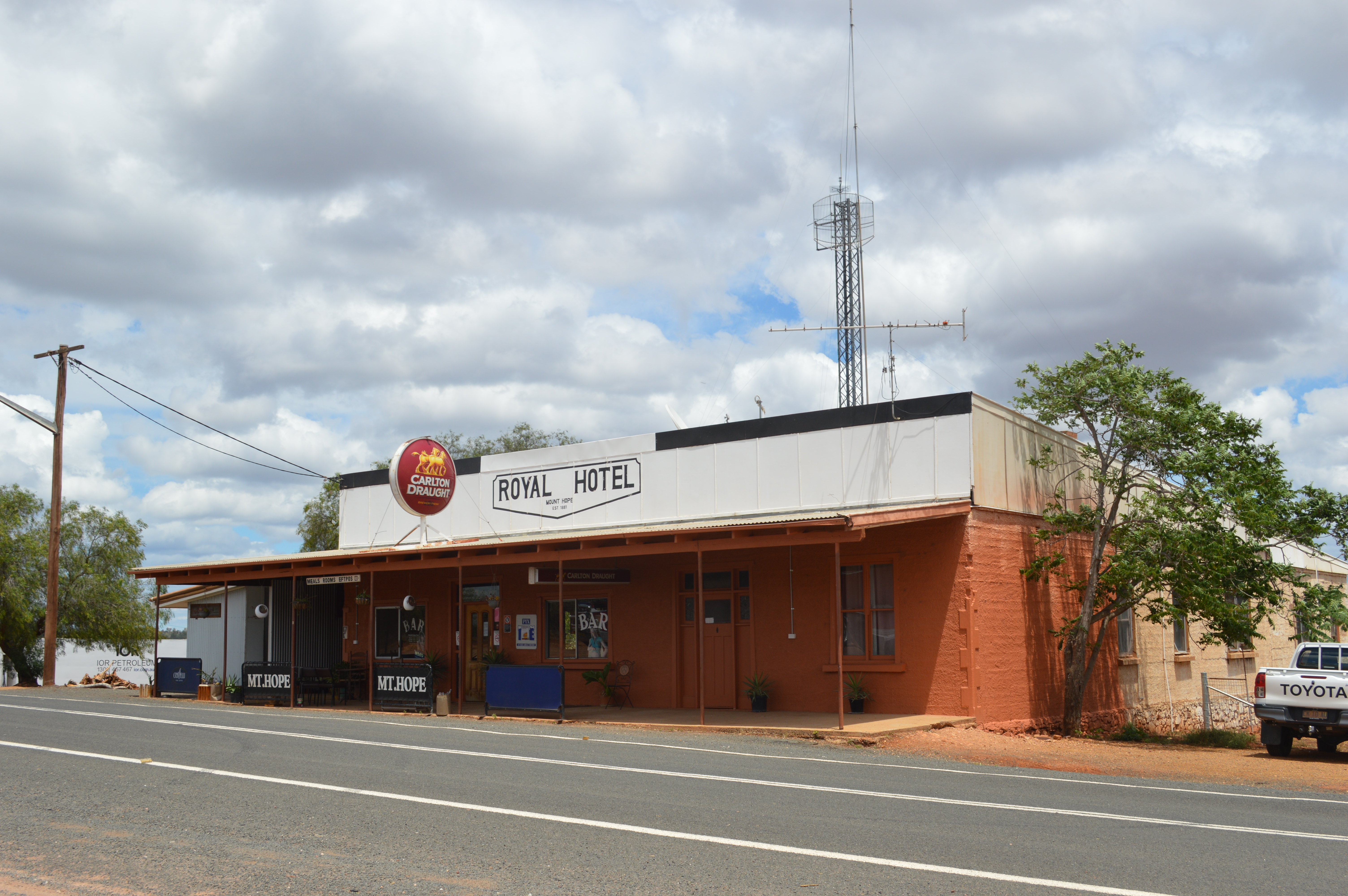 Royal Hotel at Mount Hope, New South Wales